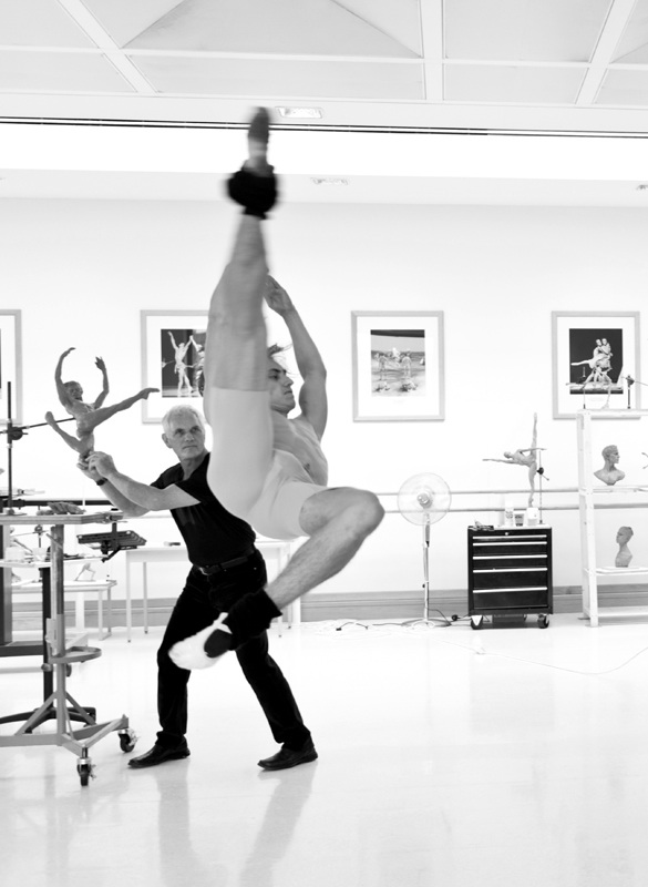 Sculptor Richard MacDonald modeling clay sculpture with ballet dancer Sergei Polunin